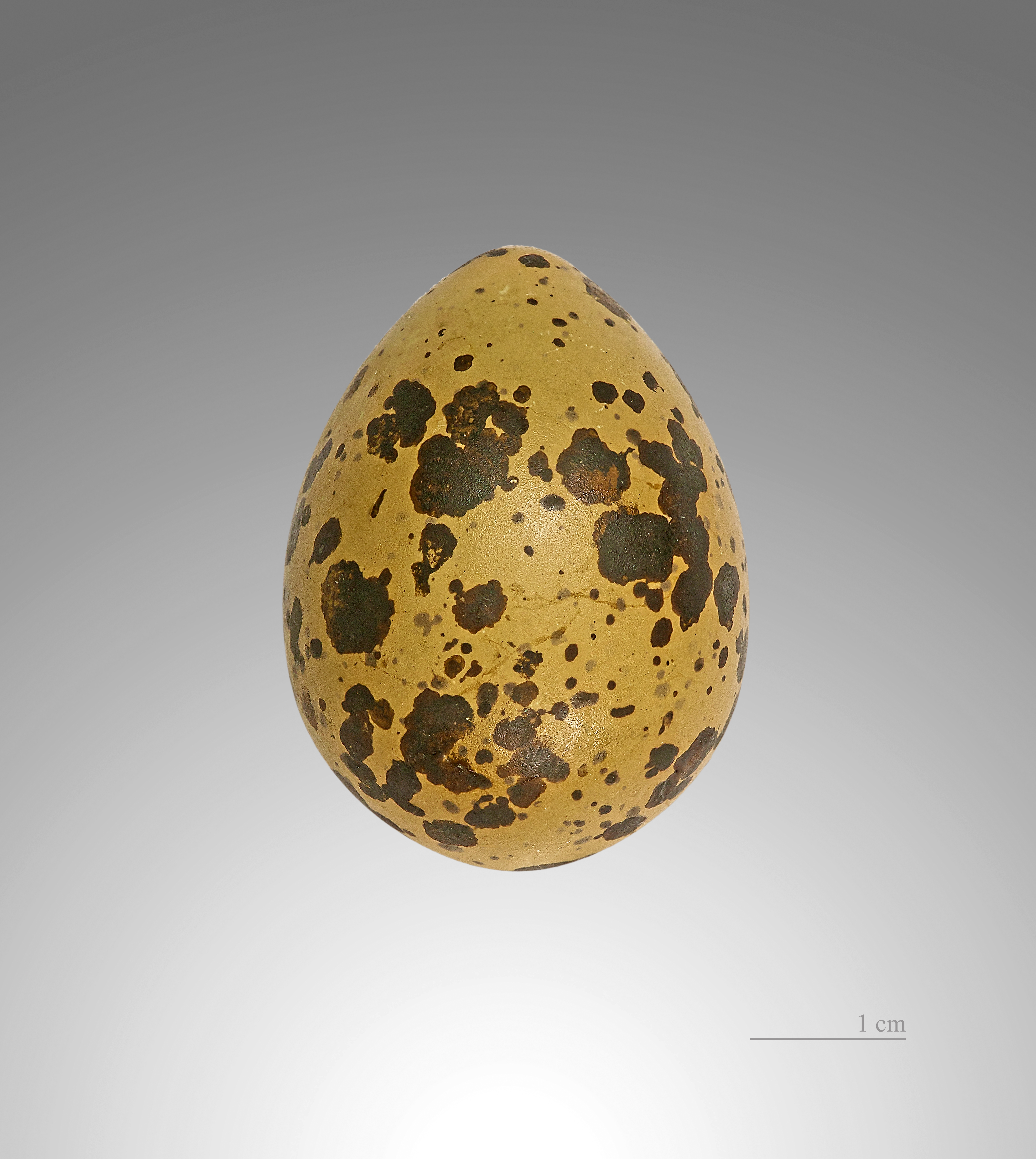 Egg of Eurasian Dotterel. Collection of René de Naurois/Jacques Perrin de Brichambaut.